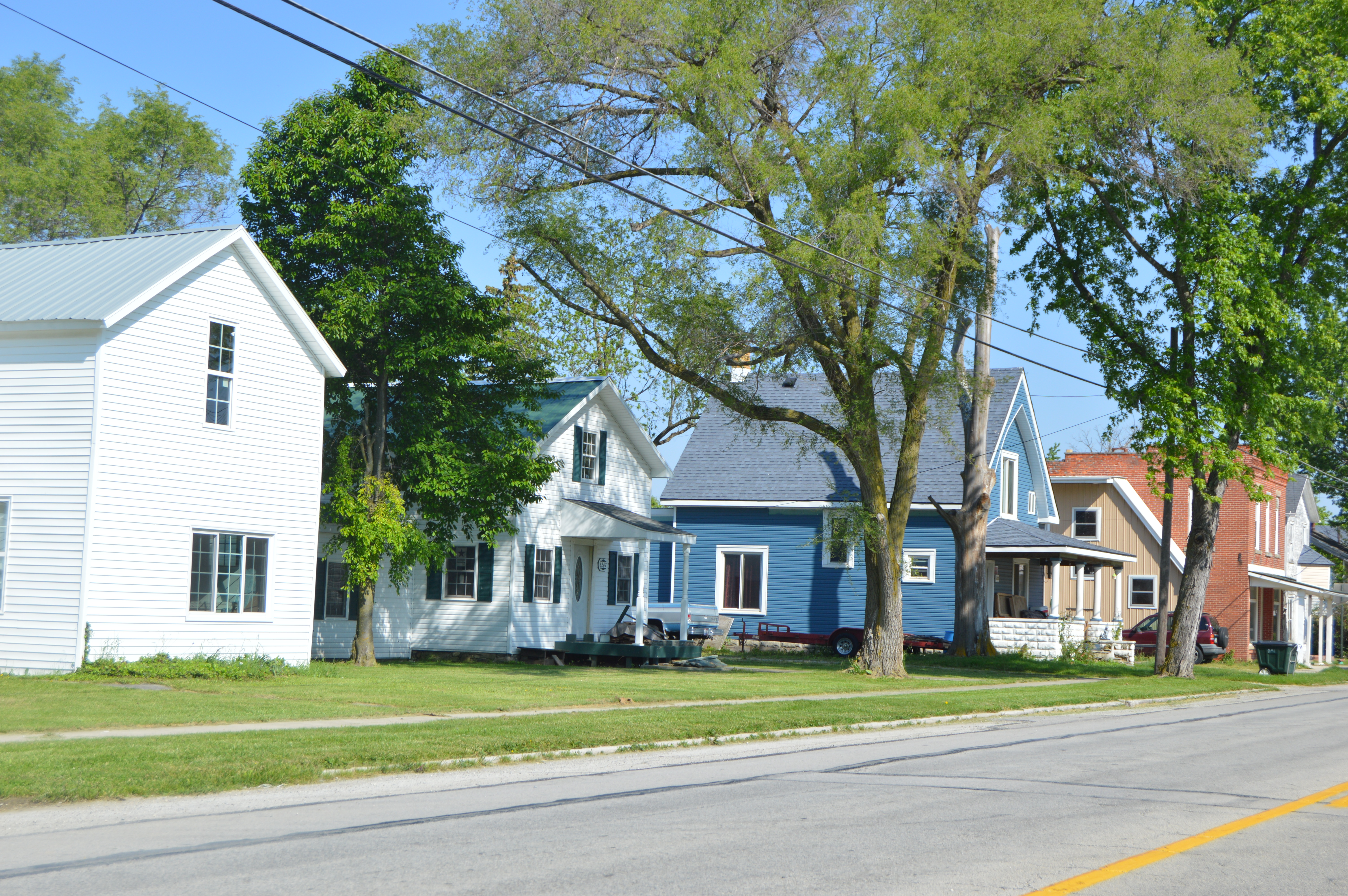 Houses on the western side of State Route 199 in southern West Millgrove, Ohio, United States.